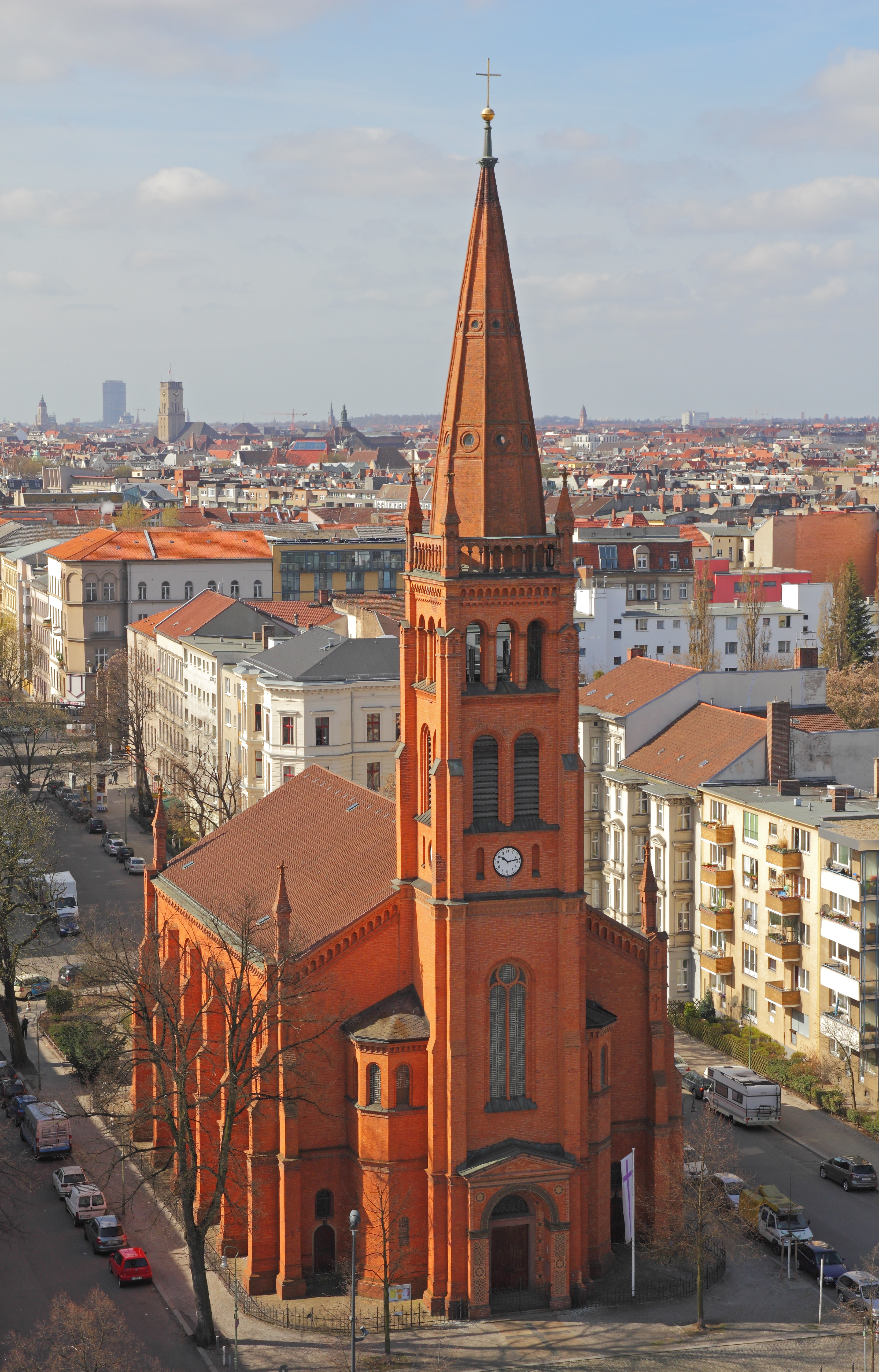 Twelve Apostles Church in Berlin-Schöneberg, Germany.